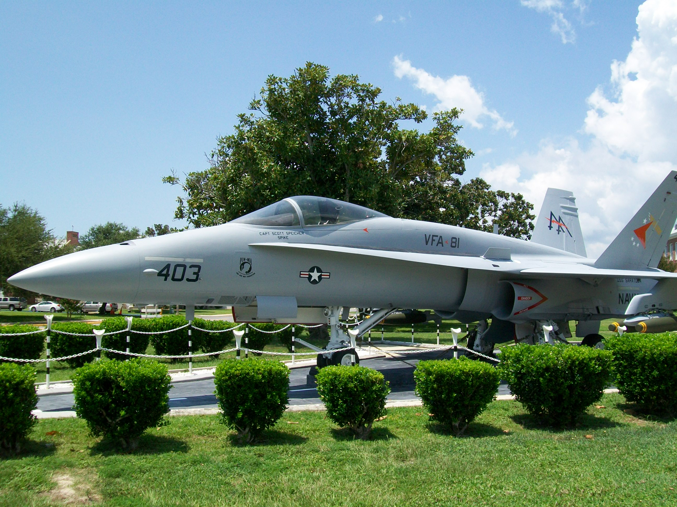 Plane dedicated for Scott Speicher. Photo I took of a US Navy F/A-18 "Hornet" on display outside the Naval Aviation Schools Command at NAS Pensacola, FL. The Hornet was recently painted in the markings of the squadron VFA-81 "Sunliners" and dedicated to the family of CAPT Michael Scott Speicher.